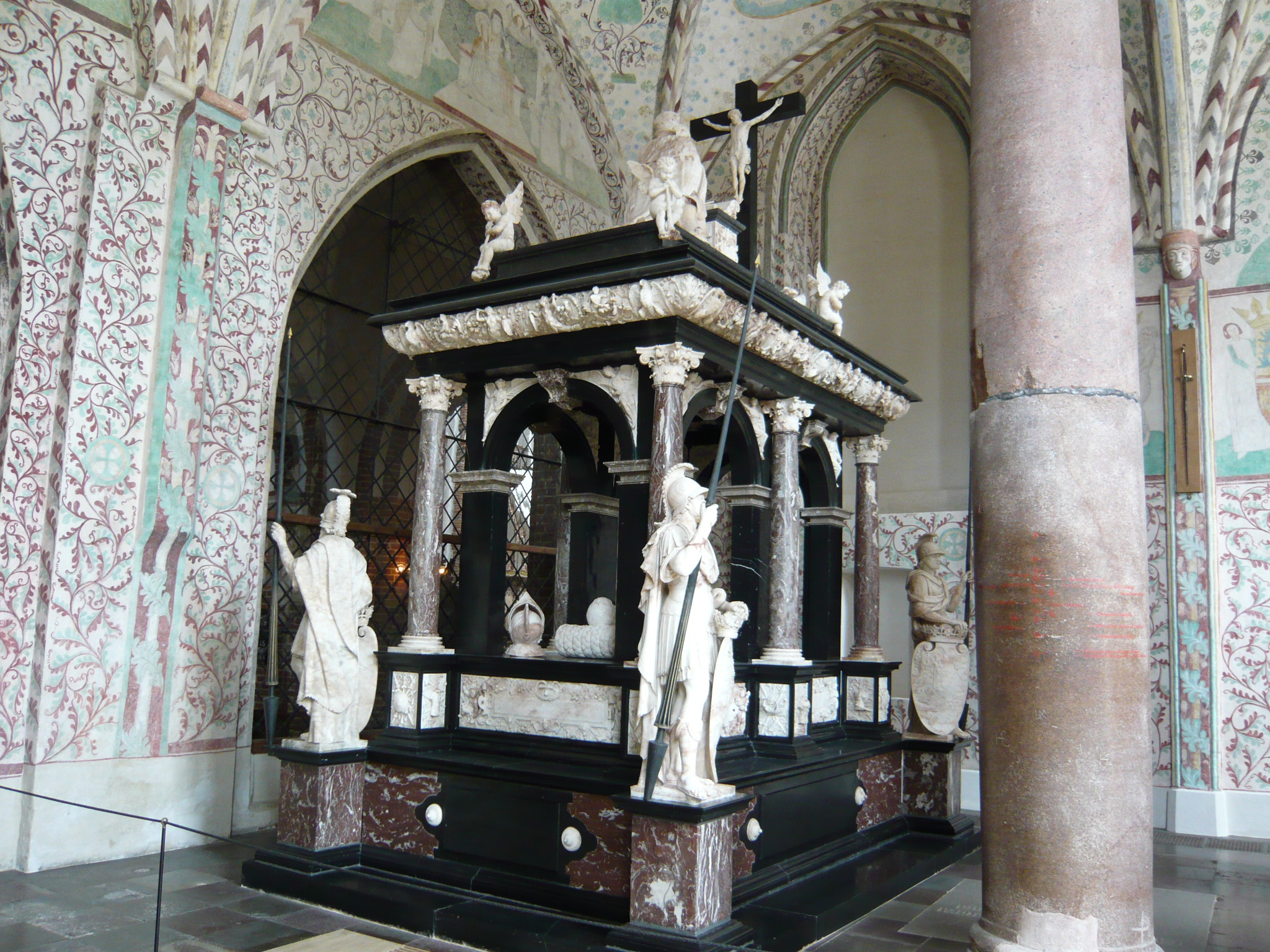 The sepulchral monument of Christian III of Denmark (1503-1559) and Dorothea of Saxe-Lauenburg (1511-1571). On the right the King's Pillar is visible, and behind it are the simple gravestones of Christian I of Denmark (1426-1481) at the right of the pillar and Dorothea of Brandenburg (1430-1495) at the left of the pillar.